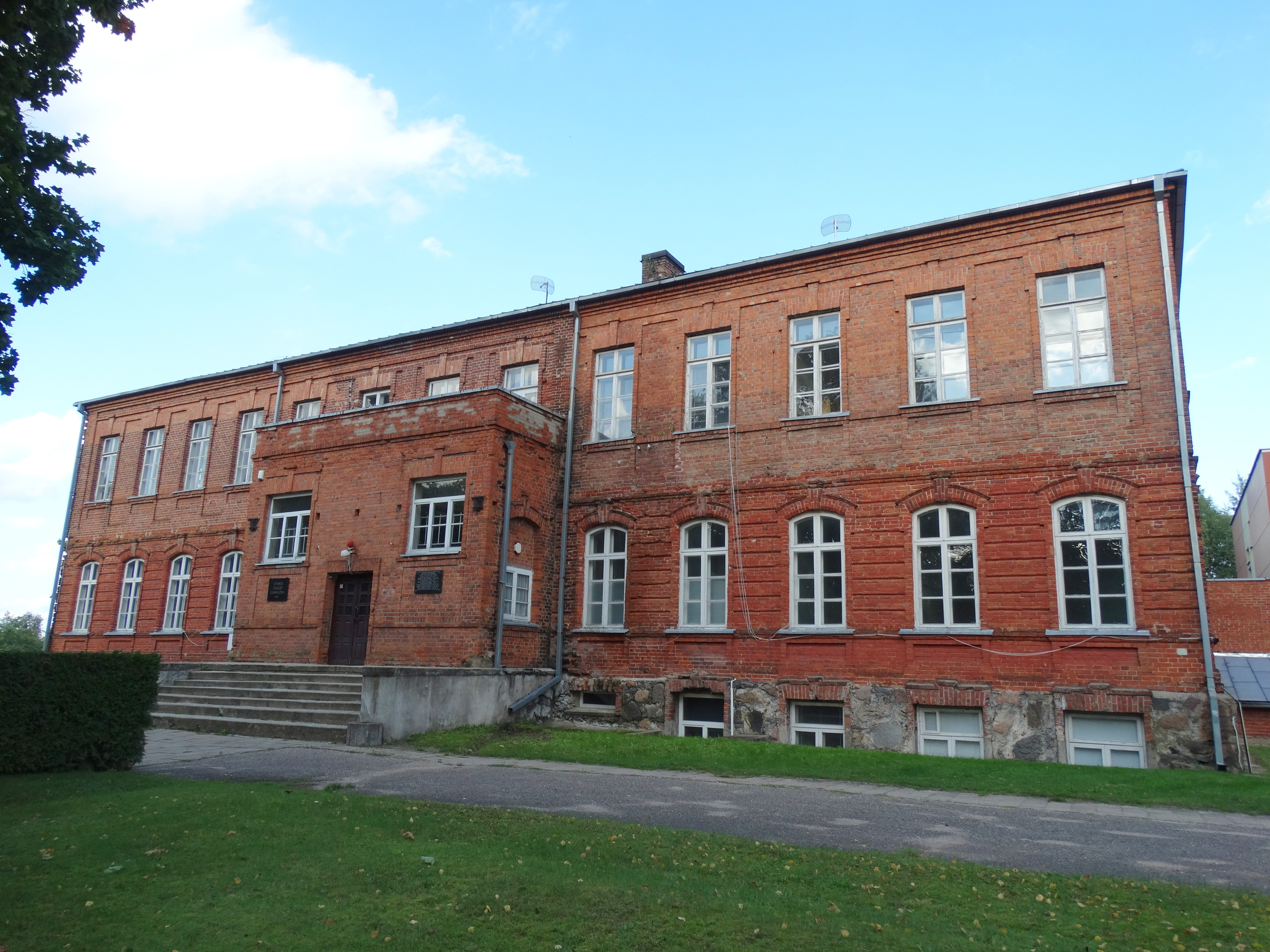 Former manor, Utena, Lithuania